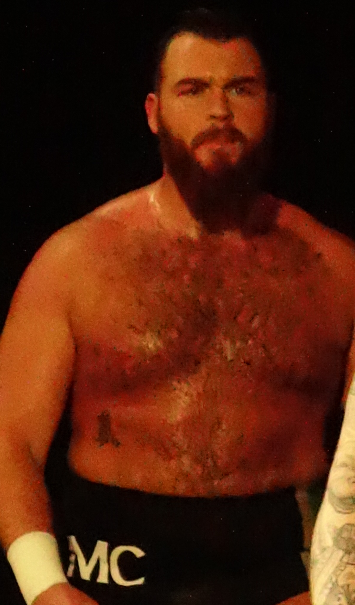 Professional wrestler, Mark Coffey on April 6, 2019 at a WWE event.